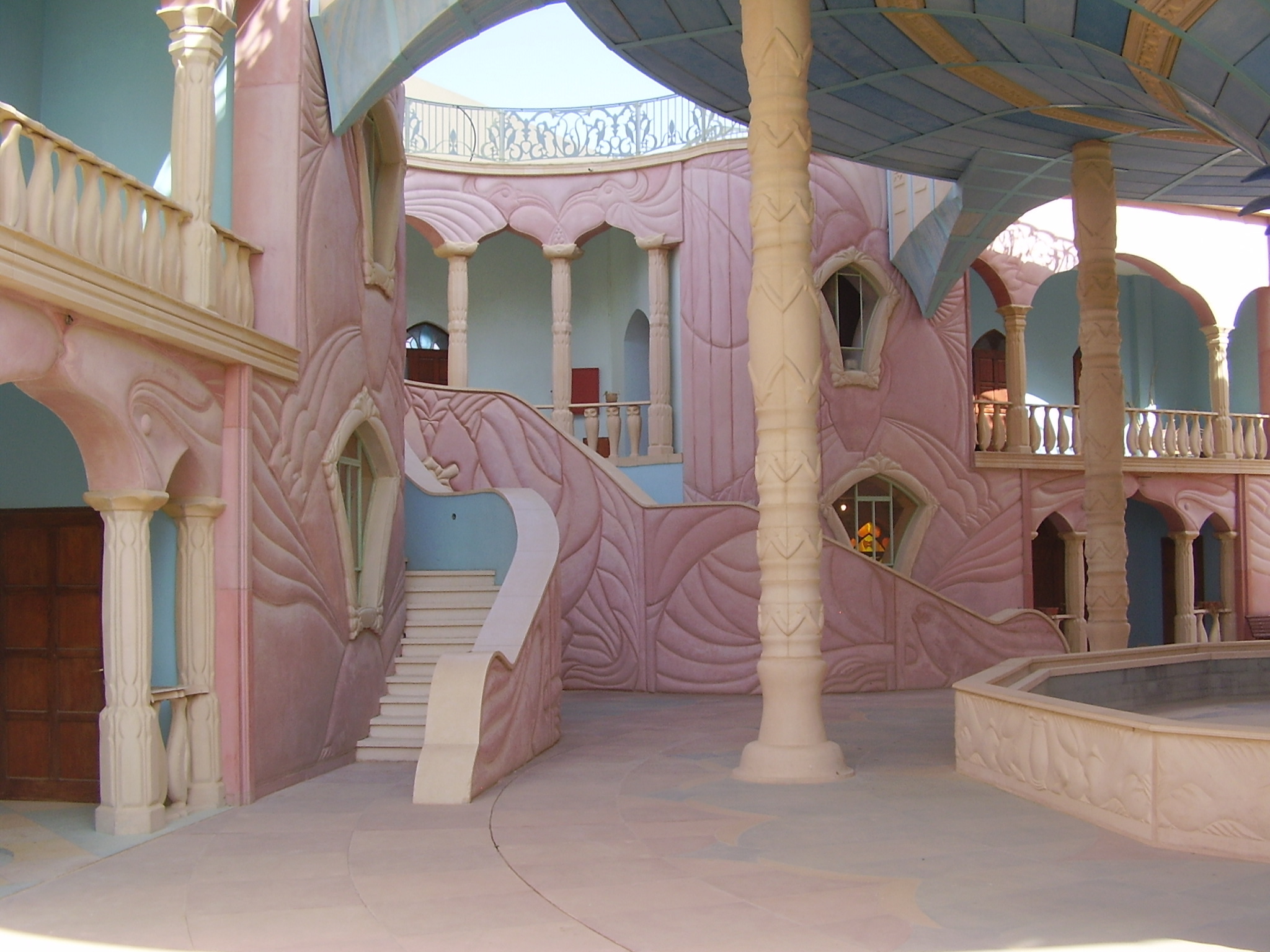 Arts Center in Kibbutz Neot Semadar